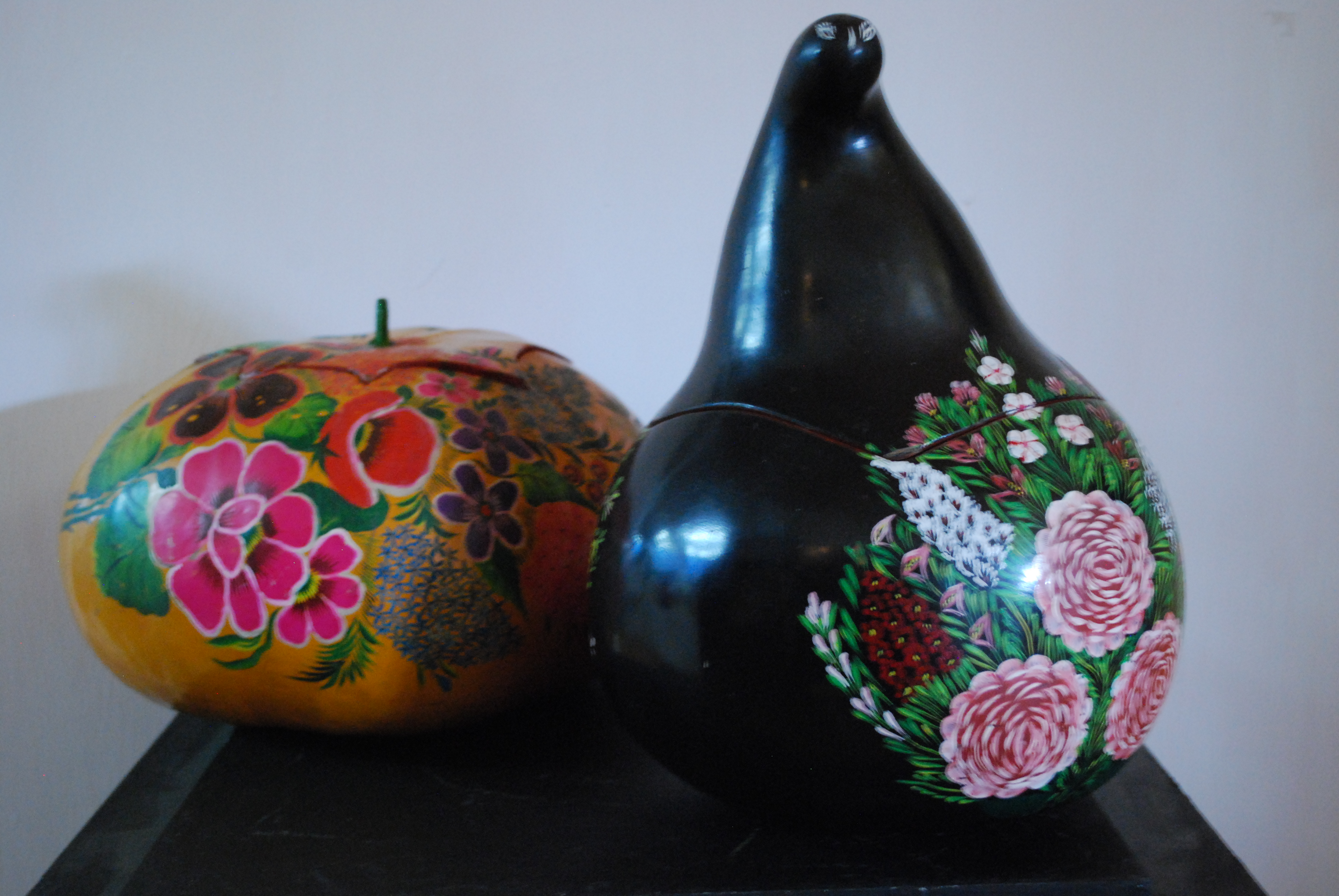 Laquered gourds at the Museo de las Culturas Populares de Chiapas in San Cristobal de las Casas, Chiapas, Mexico